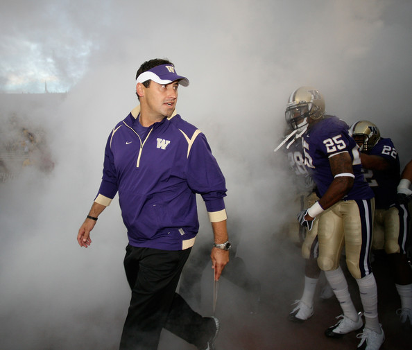 Coach Sark leads Dawgs out of the tunnel on game day